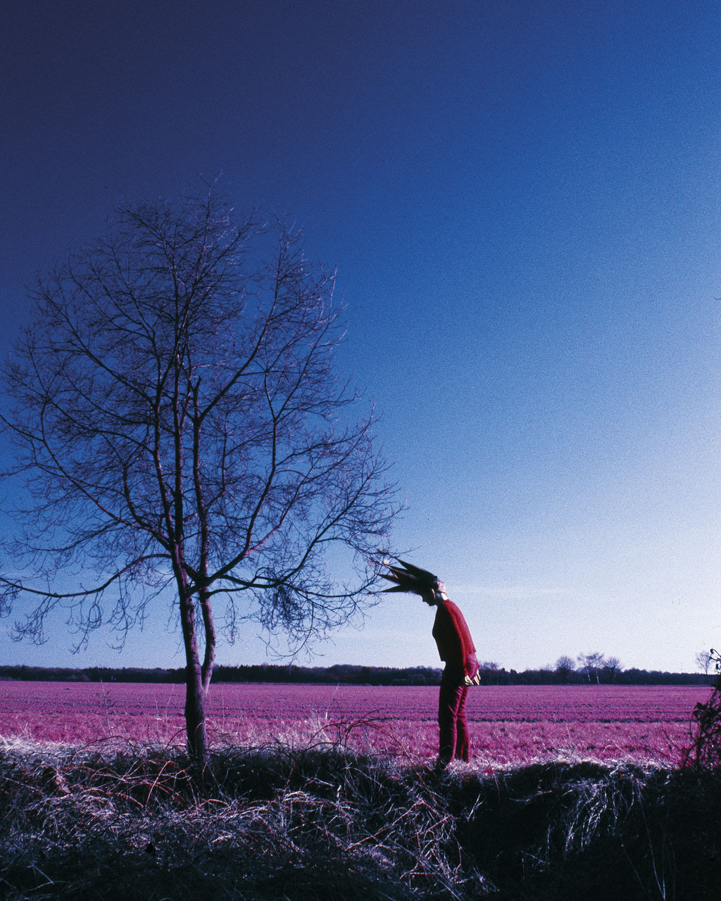 Absent Presence #5 Infrared Photography Christoph Loos 2003